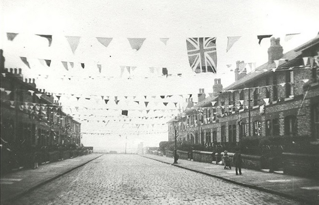 Mafeking Day celebration, Poplar Street, Heaton Mersey, Stockport. Celebrating the British victory in South Africa.